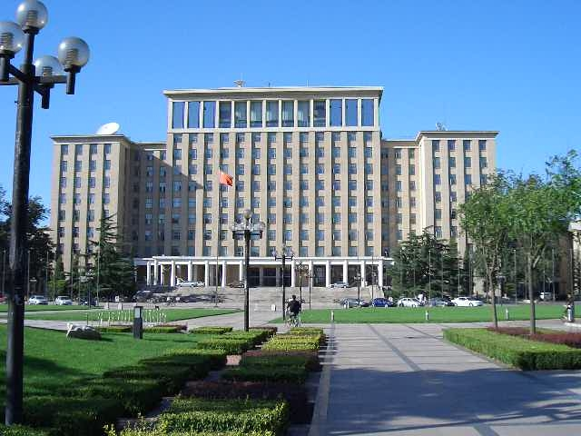 The main administration building of Tsinghua University in Beijing, China.